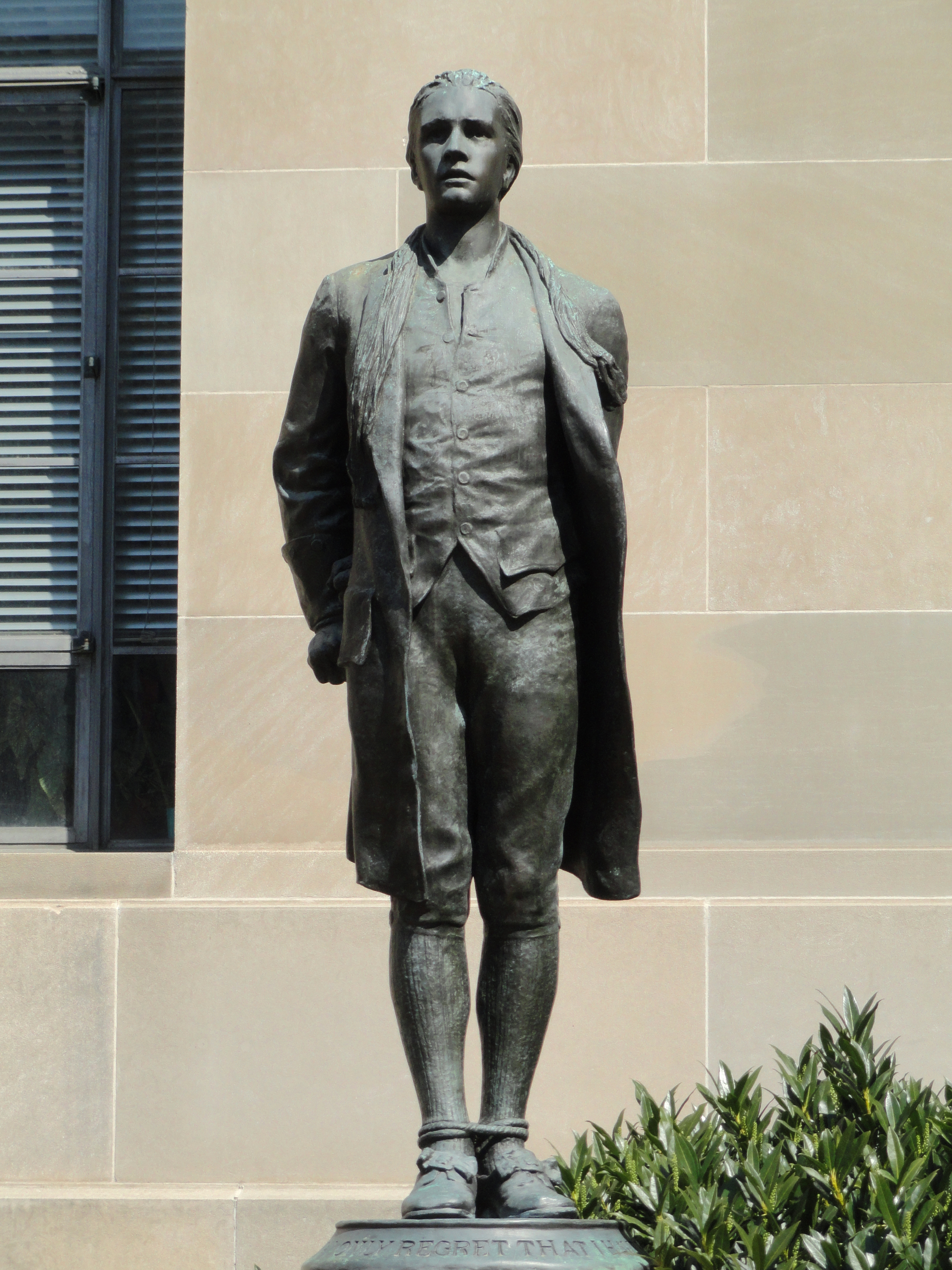 Nathan Hale by Bela Pratt, Washington, DC, USA. This artwork is in the public domain because first published in the United States before 1923.